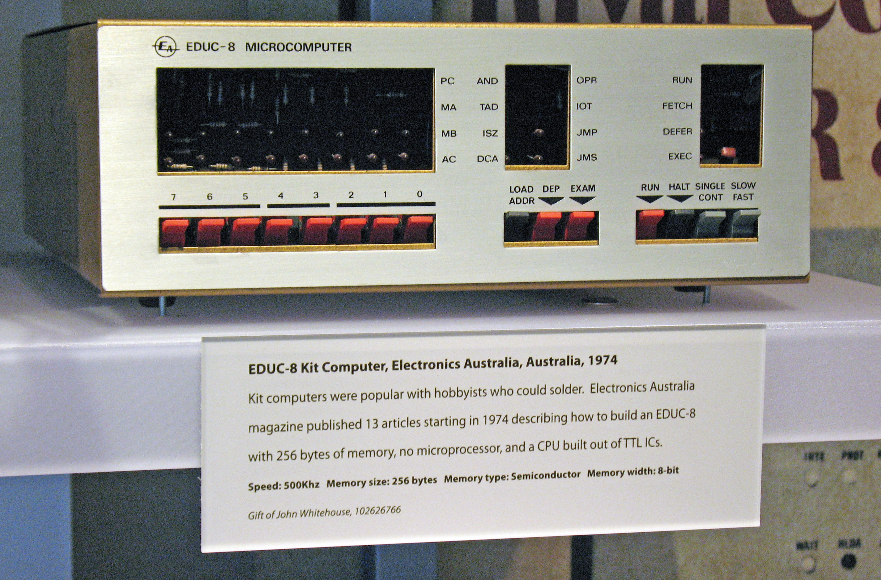 EA Educ-8 Microcomputer was designed by Jim Rowe and published as series of articles in Electronics Australia from August 1974 to August 1975. The computer is built from 100 TTL integrated circuits and does not use a microprocessor. Photo by Michael Holley at the Computer History Museum in Mountain View, California. Taken with a Canon PowerShot A630 using existing light on February 13, 2011.